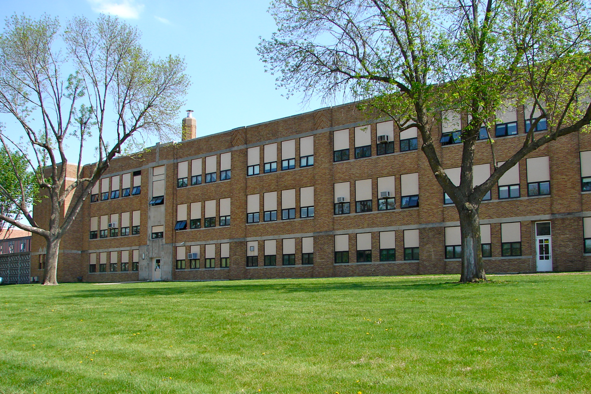 Old Atlantic High School on the NRHP since October 24, 2002. At 1100 Linn St., Atlantic, Cass County, Iowa. Now used as a Junior High School, with the new high school right next to it.